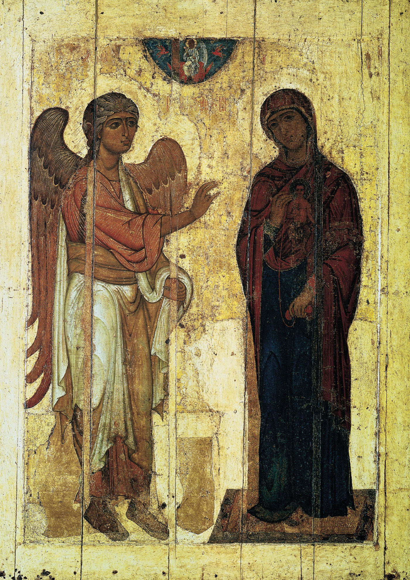 «Annunciation Ustyuzhskoe (from Ustyuzh)». Novgorod icon fom Tretyakov Gallery (Russia).